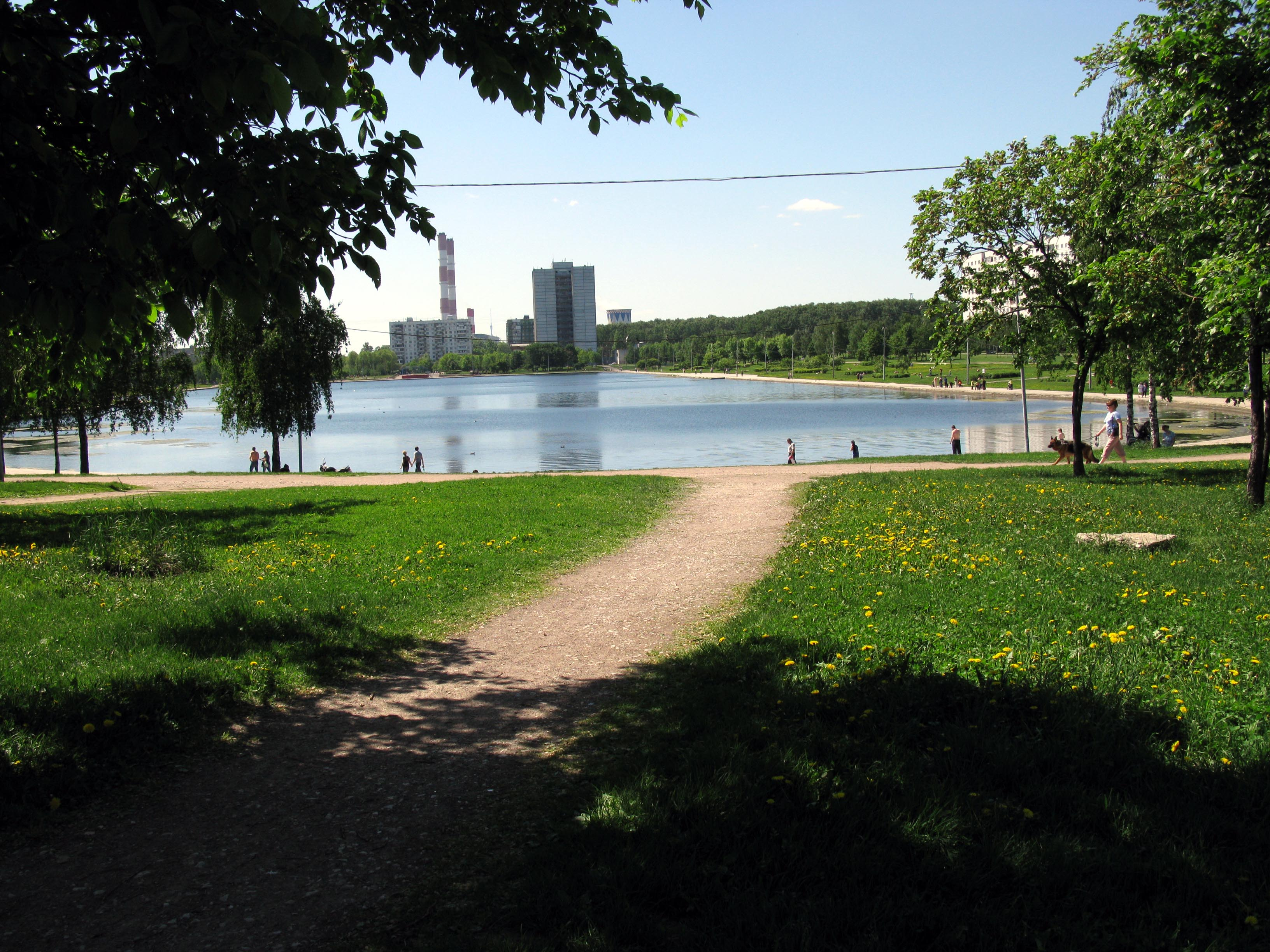 Goliyanovsky pond, Goliyanovo, Moscow